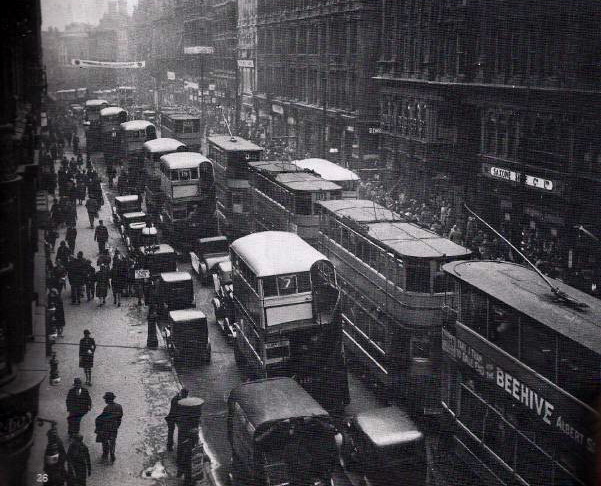 Corporation Street, Birmingham looking in the direction of New Street, in 1931.